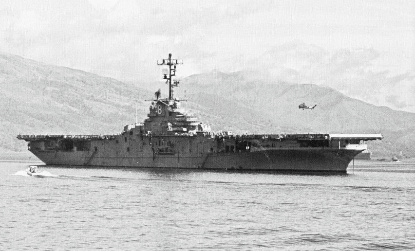 The U.S. Navy amphibious assault ship USS Valley Forge (LPH-8) in Subic Bay, circa 23 February 1969.